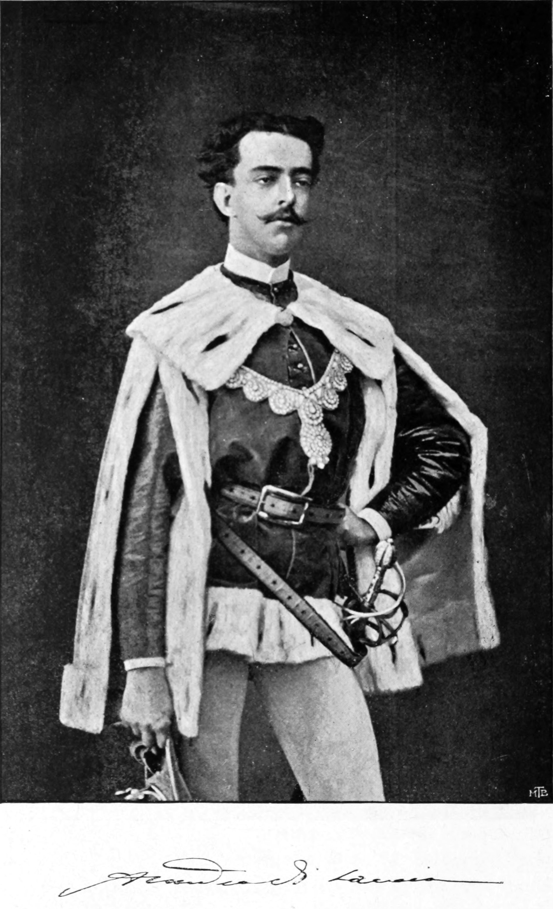 Image from book: Leopoldo Pullè, Patria Esercito Re, Ulrico Hoepli, Milan, 1908. - Amadeo first Duke of Aosta